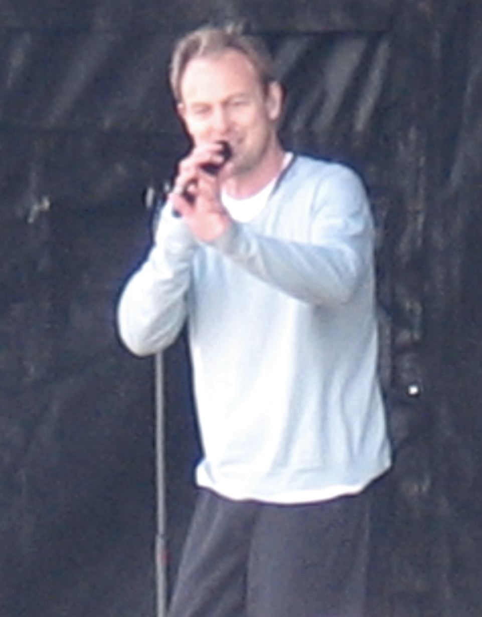 Jason Donovan, performing at South Shields, England, on 29 July 2007